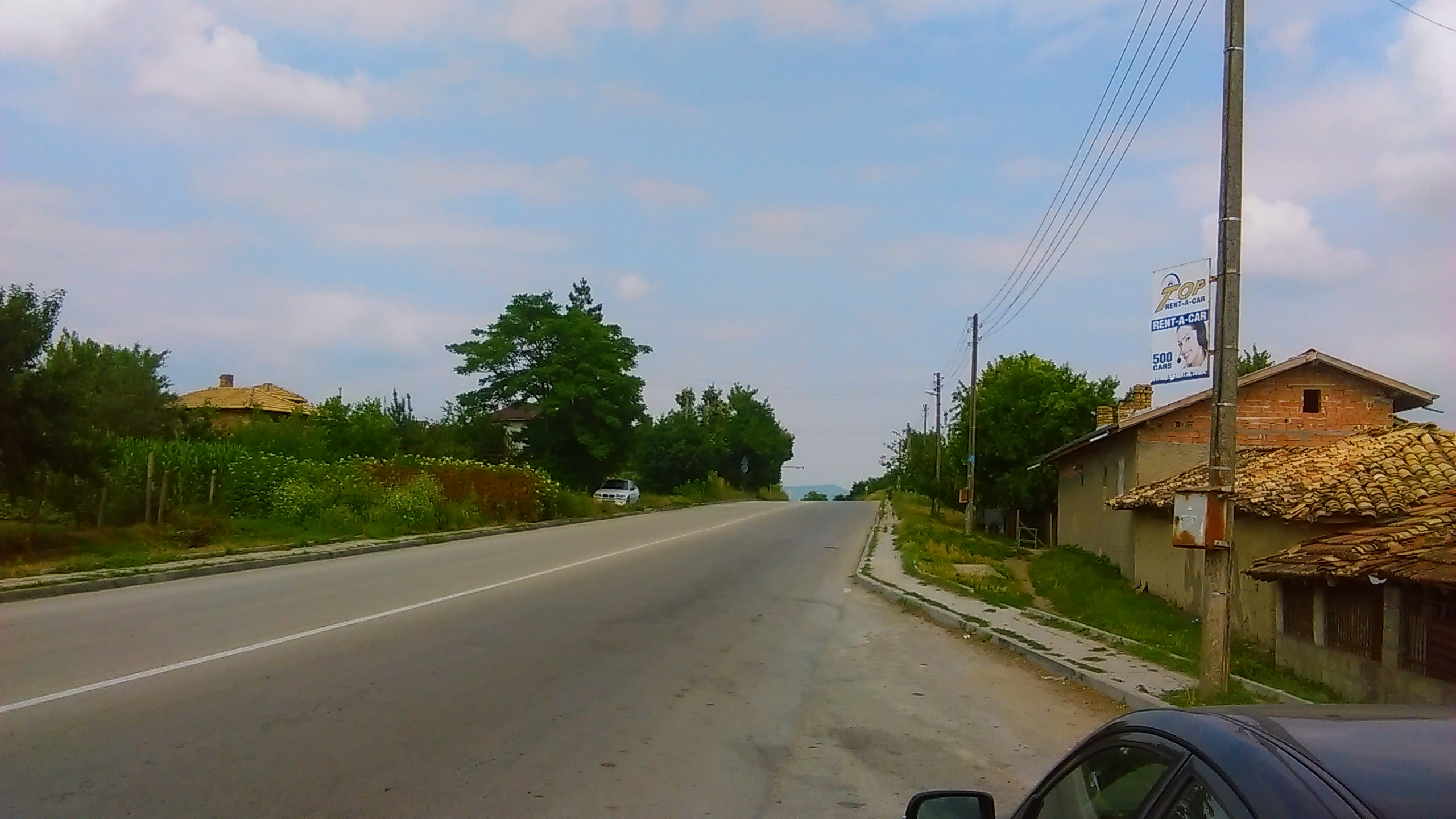 The Varna-Sofia road in Probuda